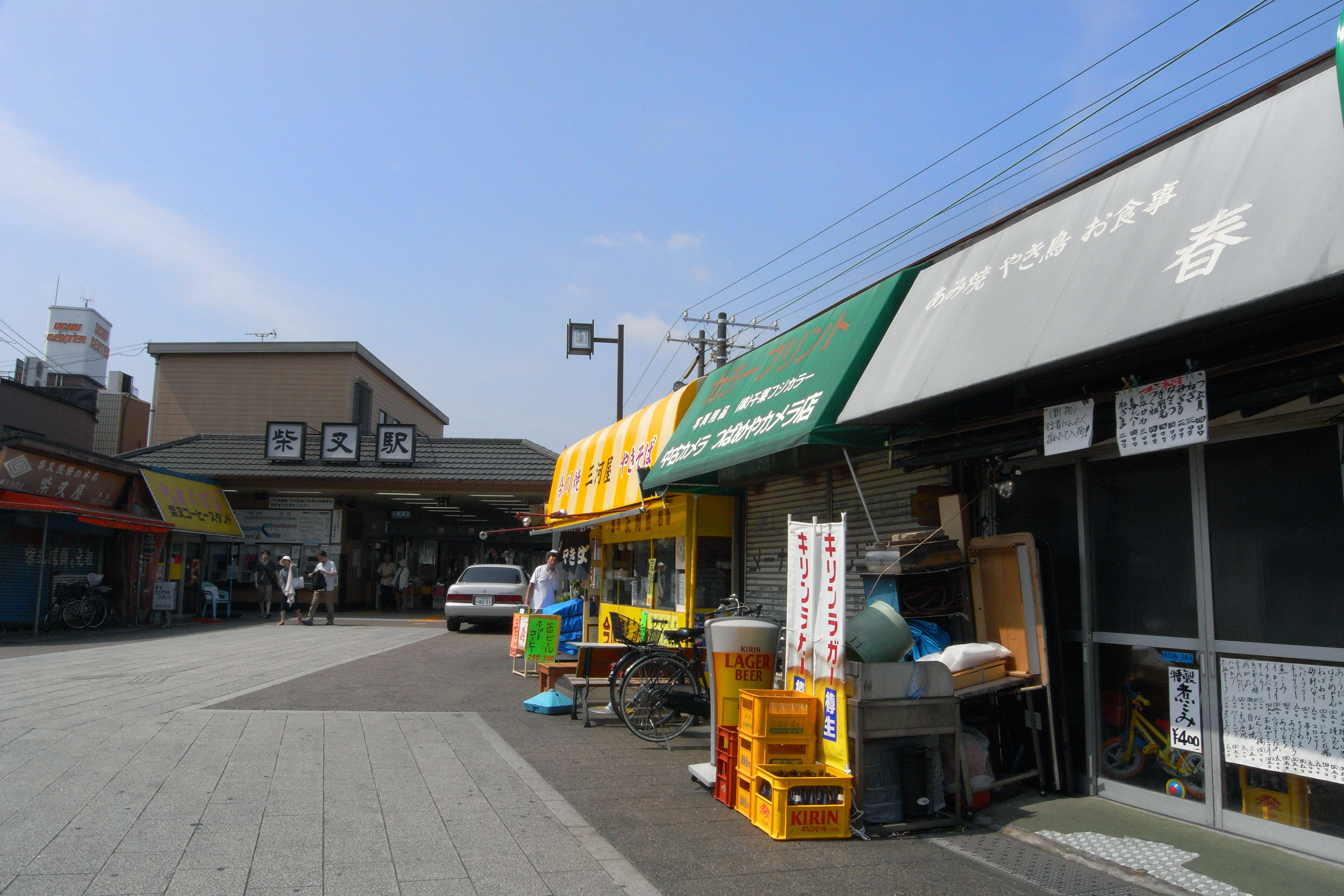 Shibamata Station on Keisei Kanamachi Line